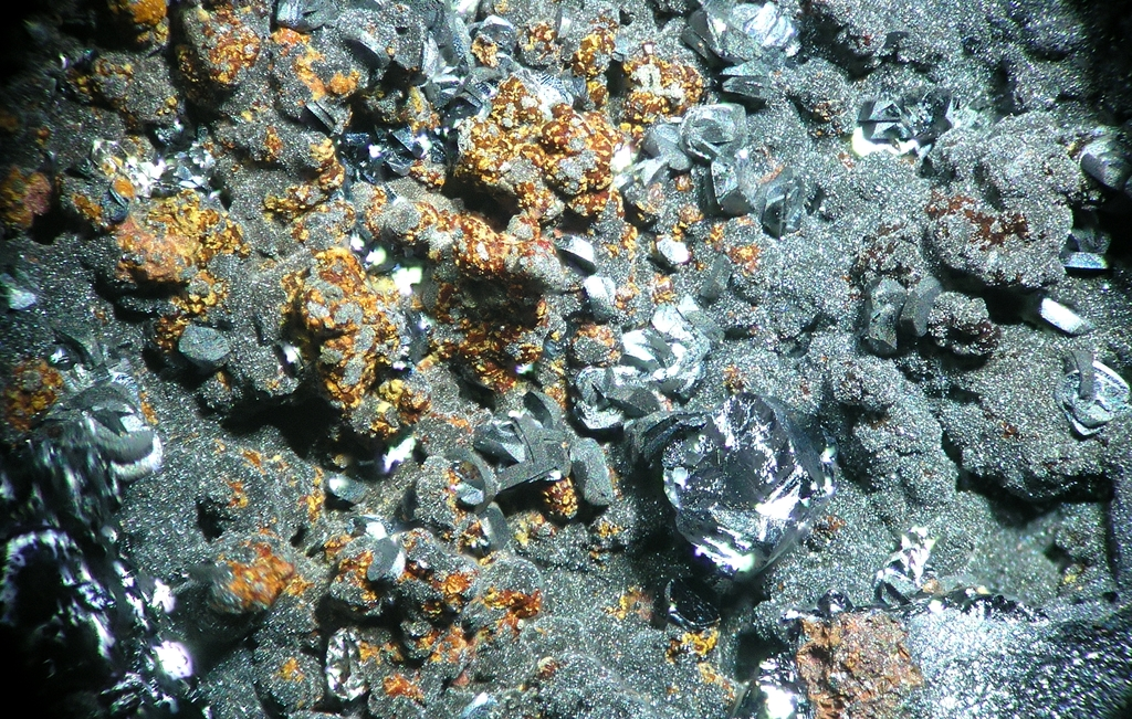 Chalcophanite (image width: 4 mm) Locality: 80(-foot) level, Gold Hill Mine (Western Utah Mine), Gold Hill, Gold Hill District (Clifton District), Deep Creek Mts, Tooele Co., Utah, USA